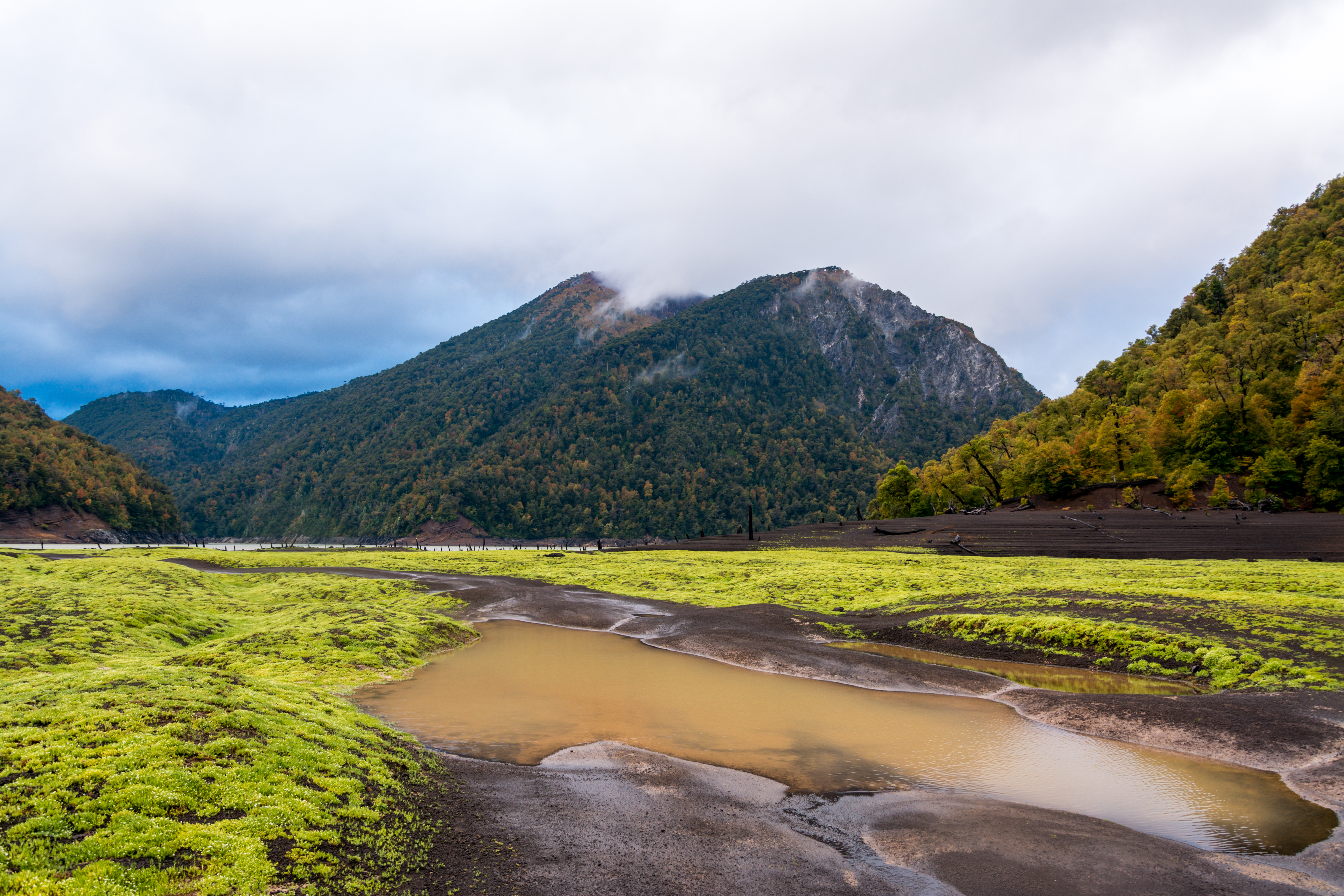 Under the rain I waited for the sunrise in Laguna Verde